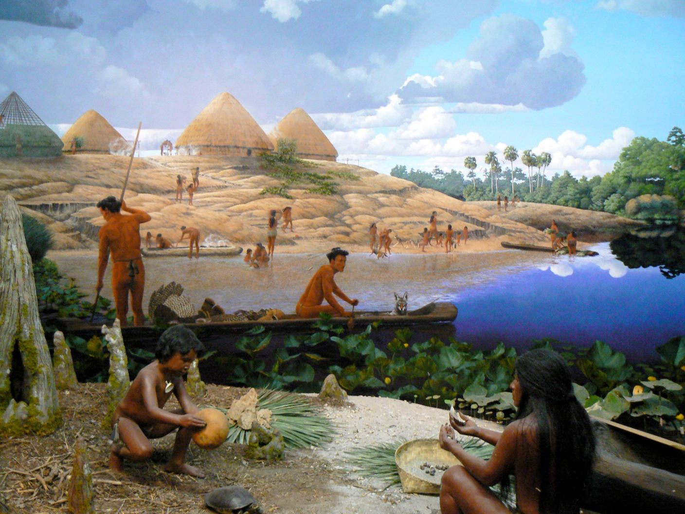 A diorama of pre-Columbian life in Florida, Museum of Florida History, Tallahassee FL.